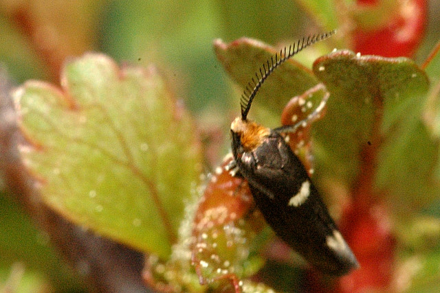 Picture taken in Commanster, Belgian High Ardennes . Species: Incurvaria masculella